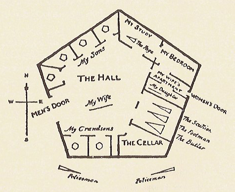 Intended for inclusion in Wikisource article for Flatland